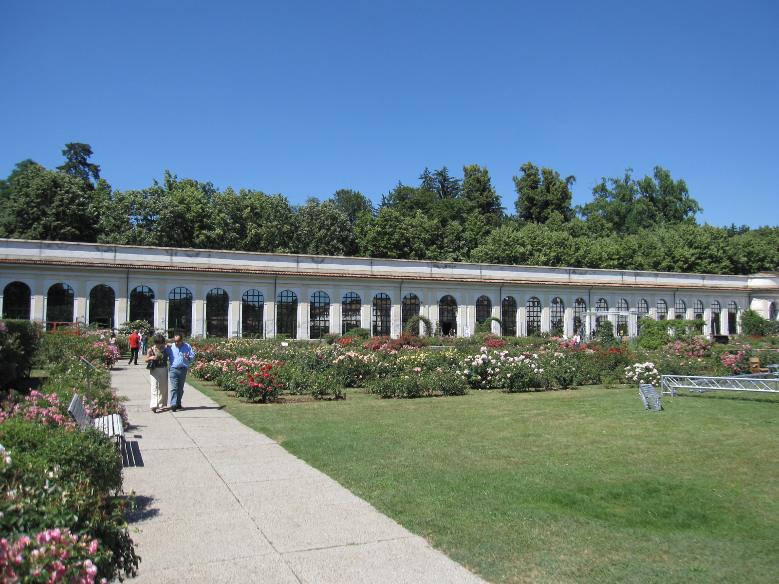 Rose garden of the Royal Villa of Monza.